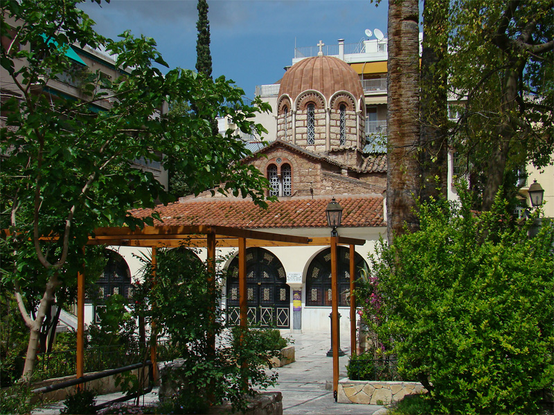 Church of Ayia Aikaterini, Athens, Greece.